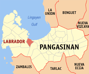 Map of Pangasinan showing the location of Labrador